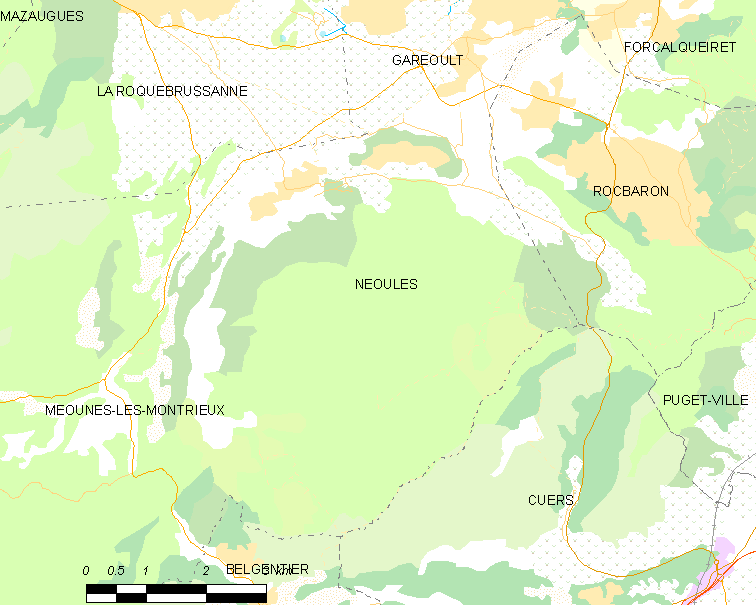 Map of French municipality Néoules